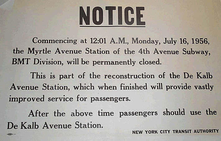 This is a poster put in stations by the New York City Transit Authority to announce the closing of the Myrtle Avenue station on July 16, 1956.